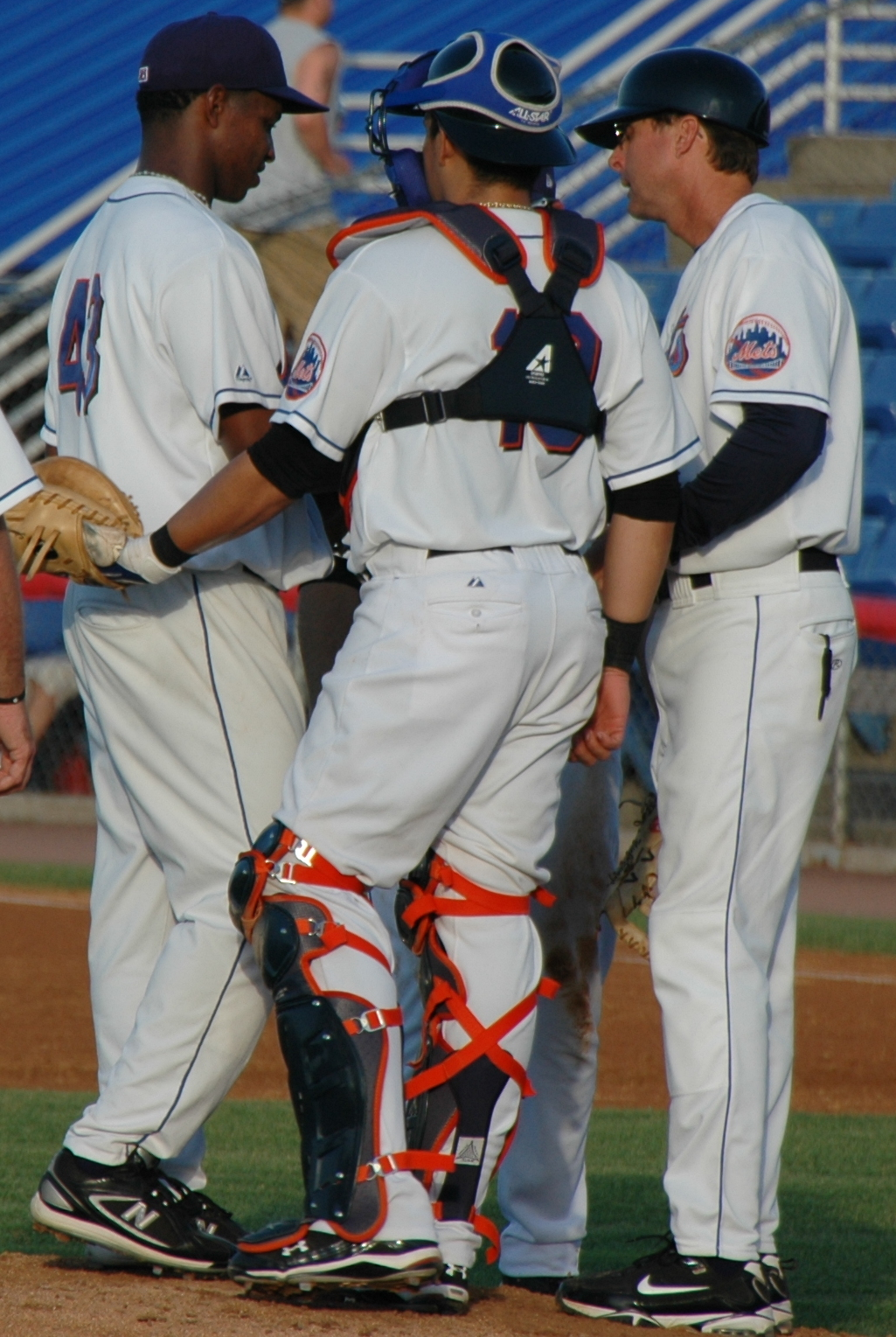 Jenrry Mejia, Xorge Carillo and other members of the Binghamton Mets hold a mound visit during a game in Binghamton, New York in July 2013.